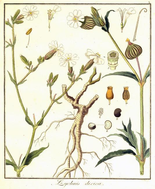 Lychnis dioica L. is a synonym of Silene dioica (L.) Clairv. by Peter Haas. From: Getreue Darstellung und Beschreibung der in der Arzneykunde gebräuchlichen Gewächse, wie auch solcher, welche mit ihnen verwechselt werden können by Friedrich Gottlob Hayne.Berlin, the author, 1809, volume 2, plate 30. Hand-coloured engraving (sheet 225 x 280 mm).